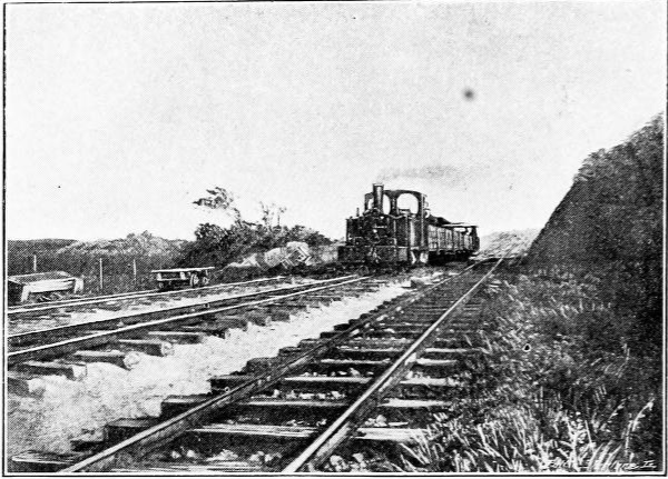 North Borneo Chartered Company: Labuan and Borneo Company's Railway